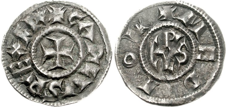 Carolingians. Charlemagne (Charles the Great). As Charles I, King of the Franks, 768-814. AR Denier (1.60 g, 2h). Milan mint. Struck 793/4-812. +CARLVS REX FR, cross pattée ::::+MEDIOL, Karolus monogram. Coupland, Charlemagne fig. 7b, 16; Depeyrot 662F; M&G 212; MEC 1, 743. Good VF, toned. Ex Ross Schraeder Collection; Classical Numismatic Group 46 (24 June 1998), lot 1668.